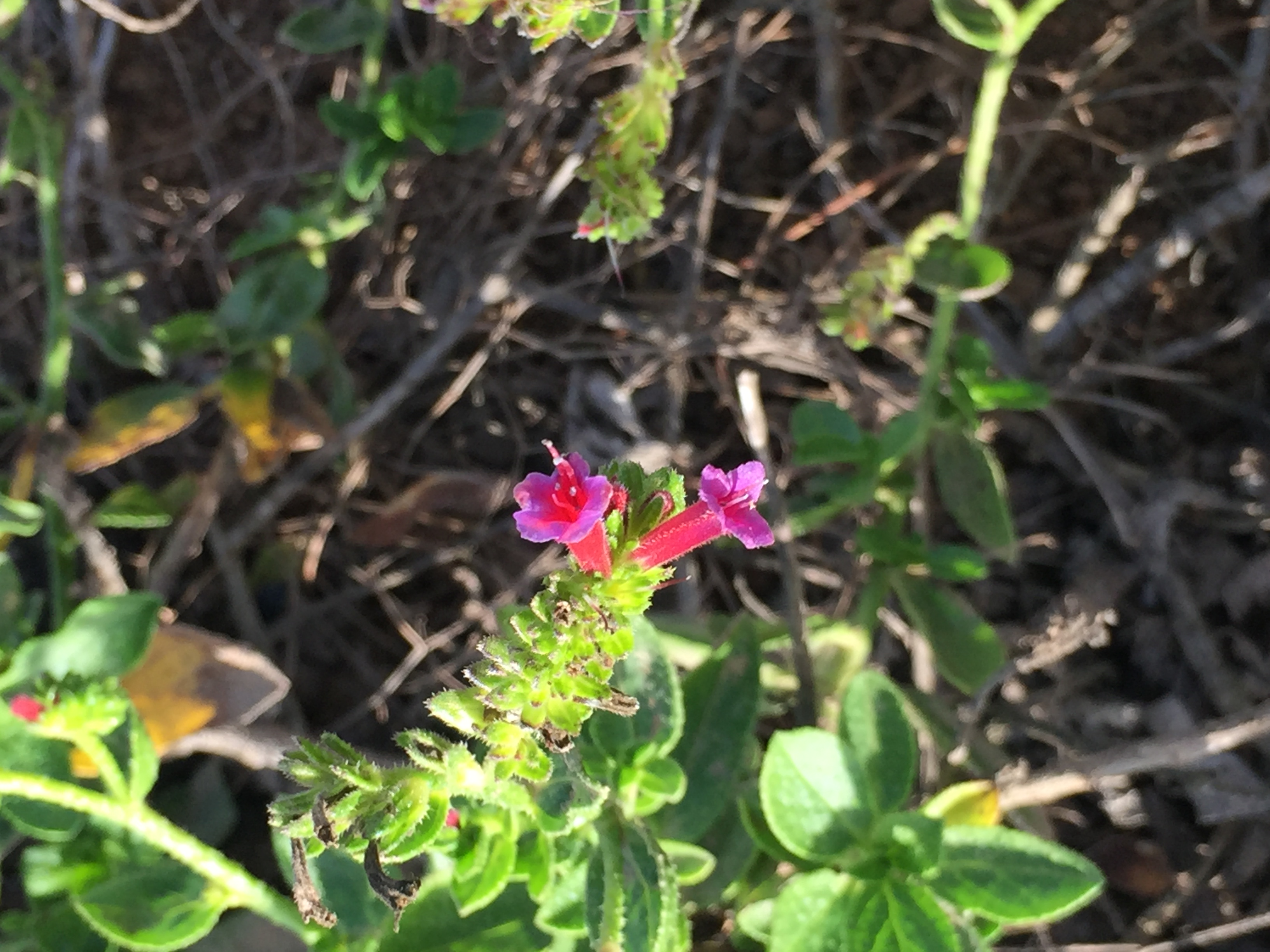 Echium stenosiphon, endemic plant of Cape Verde